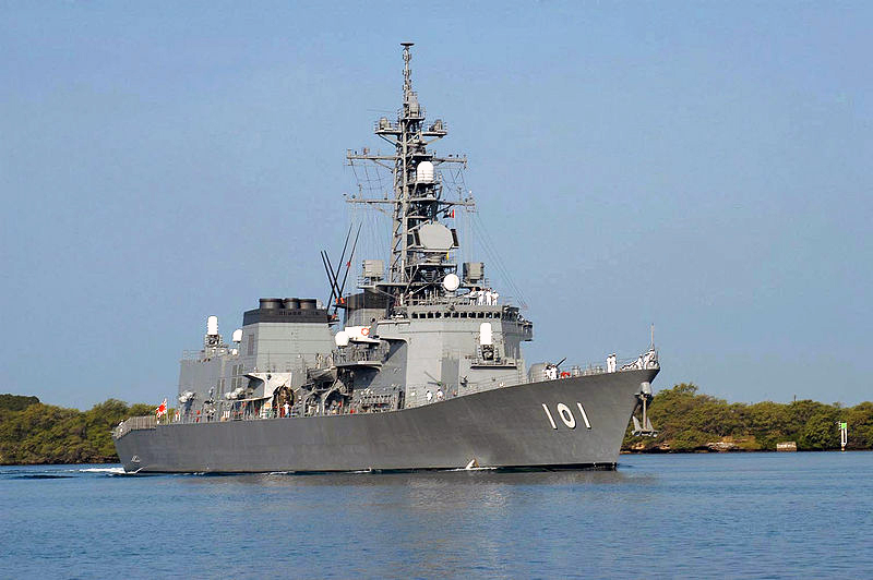 Murasame, a Japanese Murasame-class destroyer arrives in Pearl Harbour.